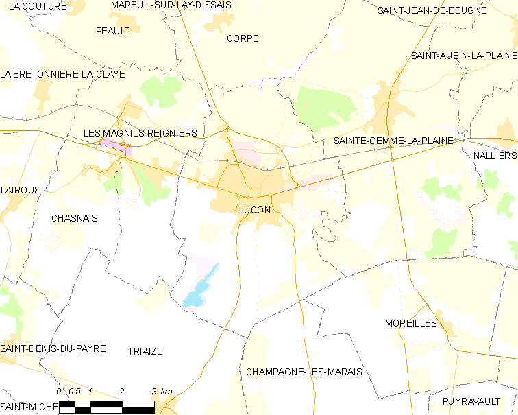 Map of French municipality Luçon